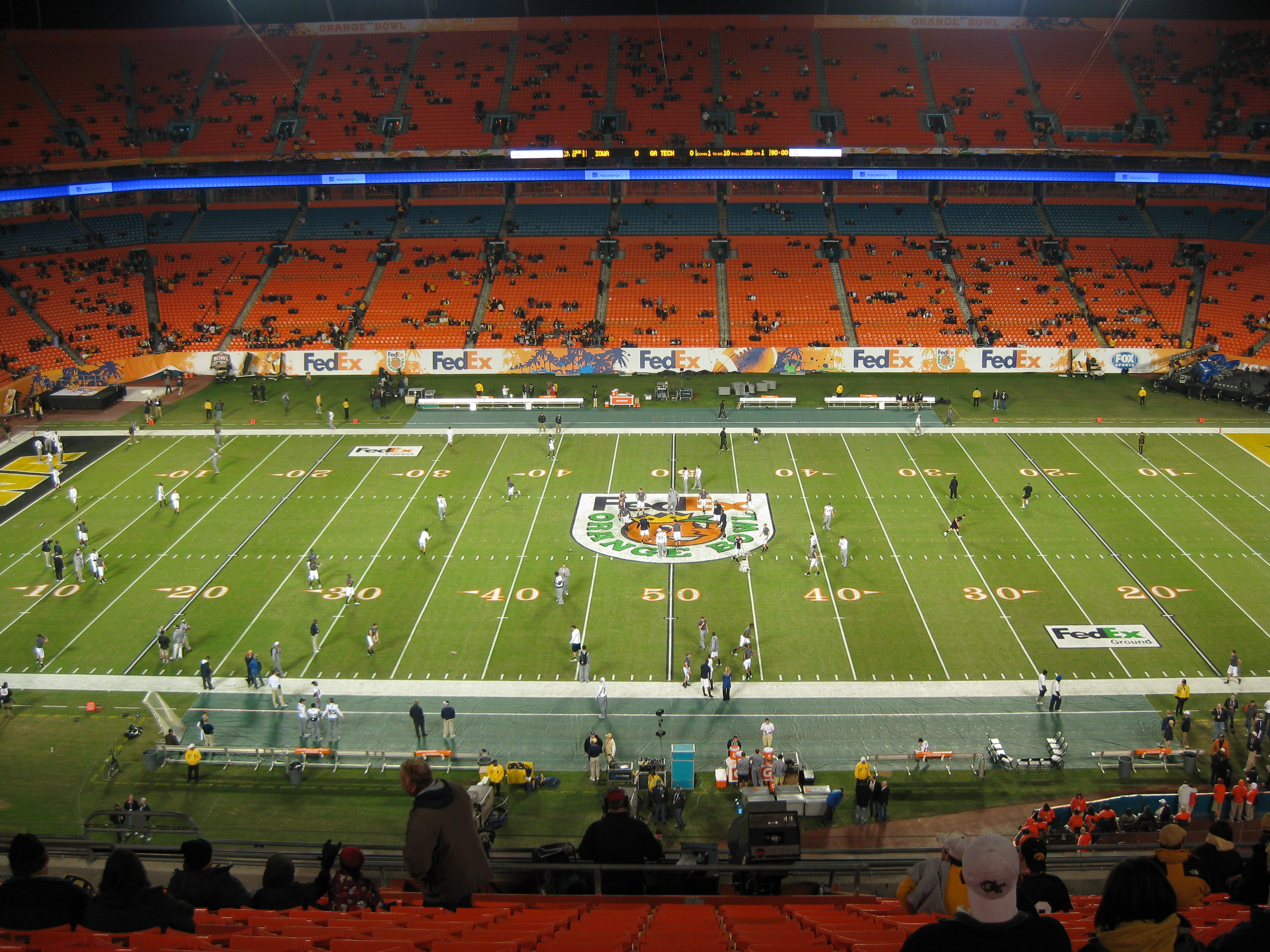 The interior of Sun Life Stadium while it was still under the Land Shark Stadium moniker on the night of the 2010 Orange Bowl.